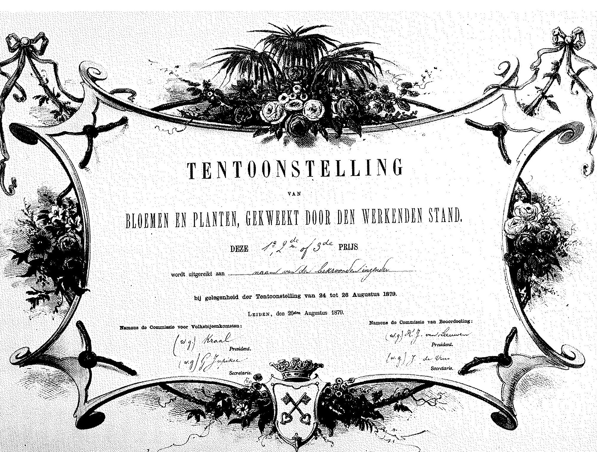 Certificate of the Floralia flower exhibition, Leiden, 24 - 26 August 1879